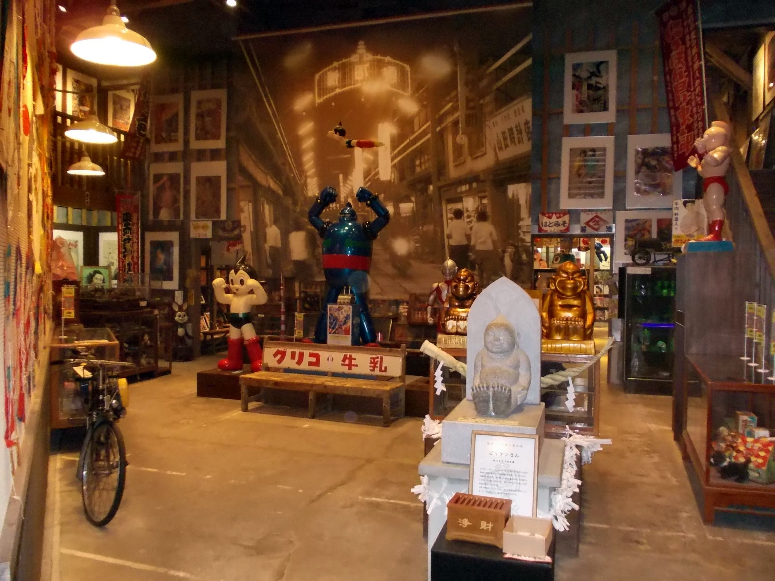 Showa no Machi, Bungotakada, Oita, Japan